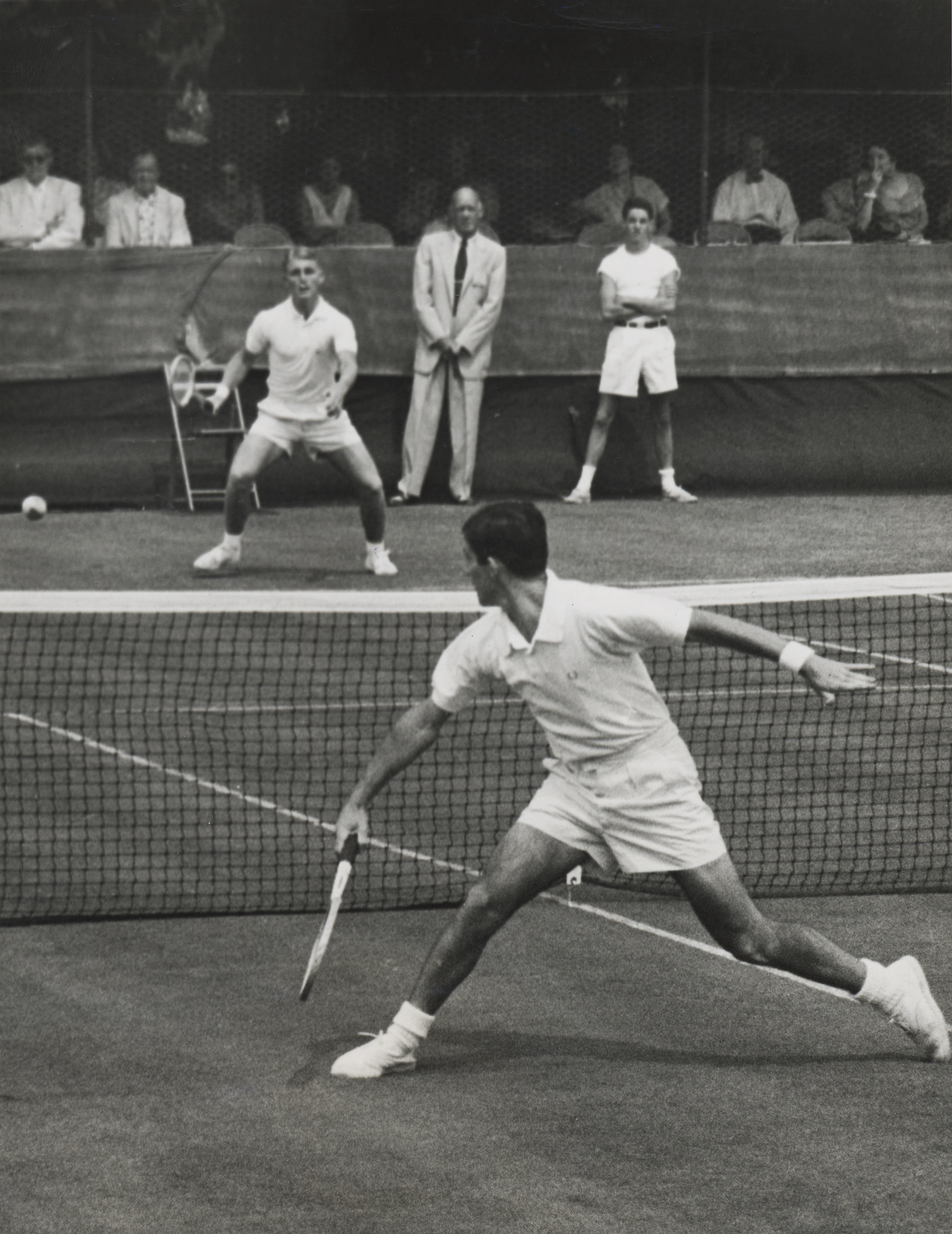 Australian tennis players Ken Rosewall (front) and Lew Hoad in the final of the Eastern Grass Court Championships in South Orange, New Jersey, USA.